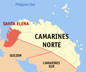 Map of Camarines Norte showing the location of Santa Elena